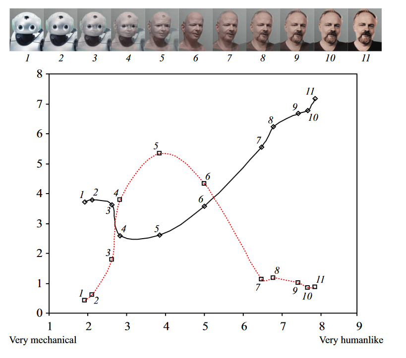 Ühe roboti tuttavlikuse (must joon) ja võõrastamise (punane joon) tunnete tekitamise inimlaadsusest sõltuvuse graafik